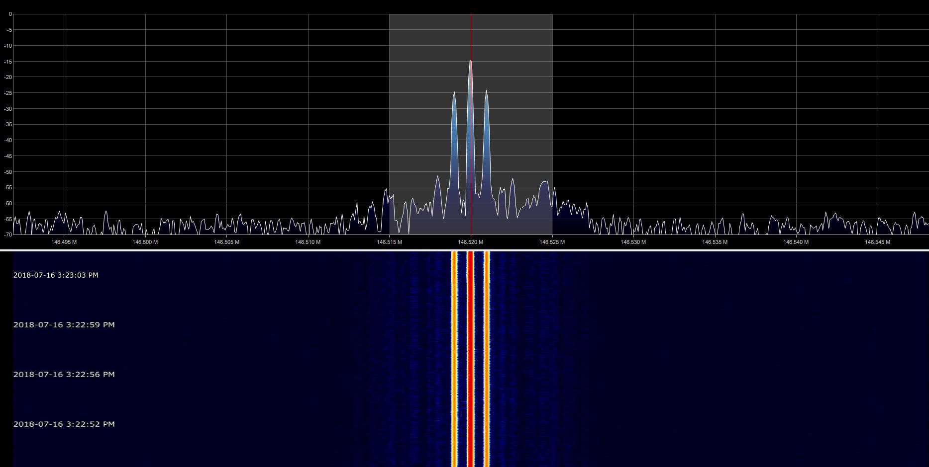 Waterfall plot of a 146.52 MHZ radio carrier, with amplitude modulation by a 1,000 hz sinusoid. Modulation depth is 50%. Two strong sidebands at + and - 1Khz from the carrier frequency are shown. Plot from a software-defined radio system.